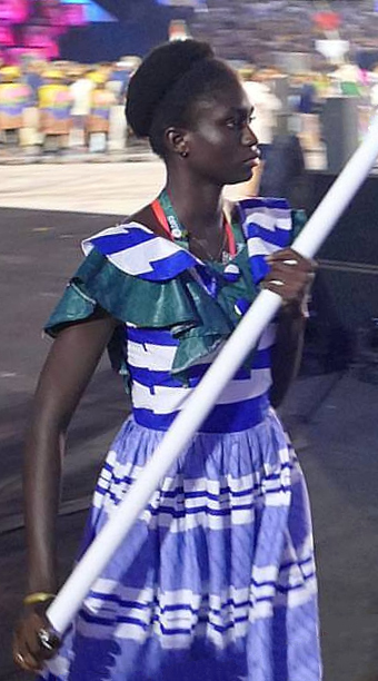 The flag bearer of Sierra Leone Bunturabie Jalloh (swimmer) at the opening ceremony of the 2016 Summer Olympics in Rio de Janeiro.